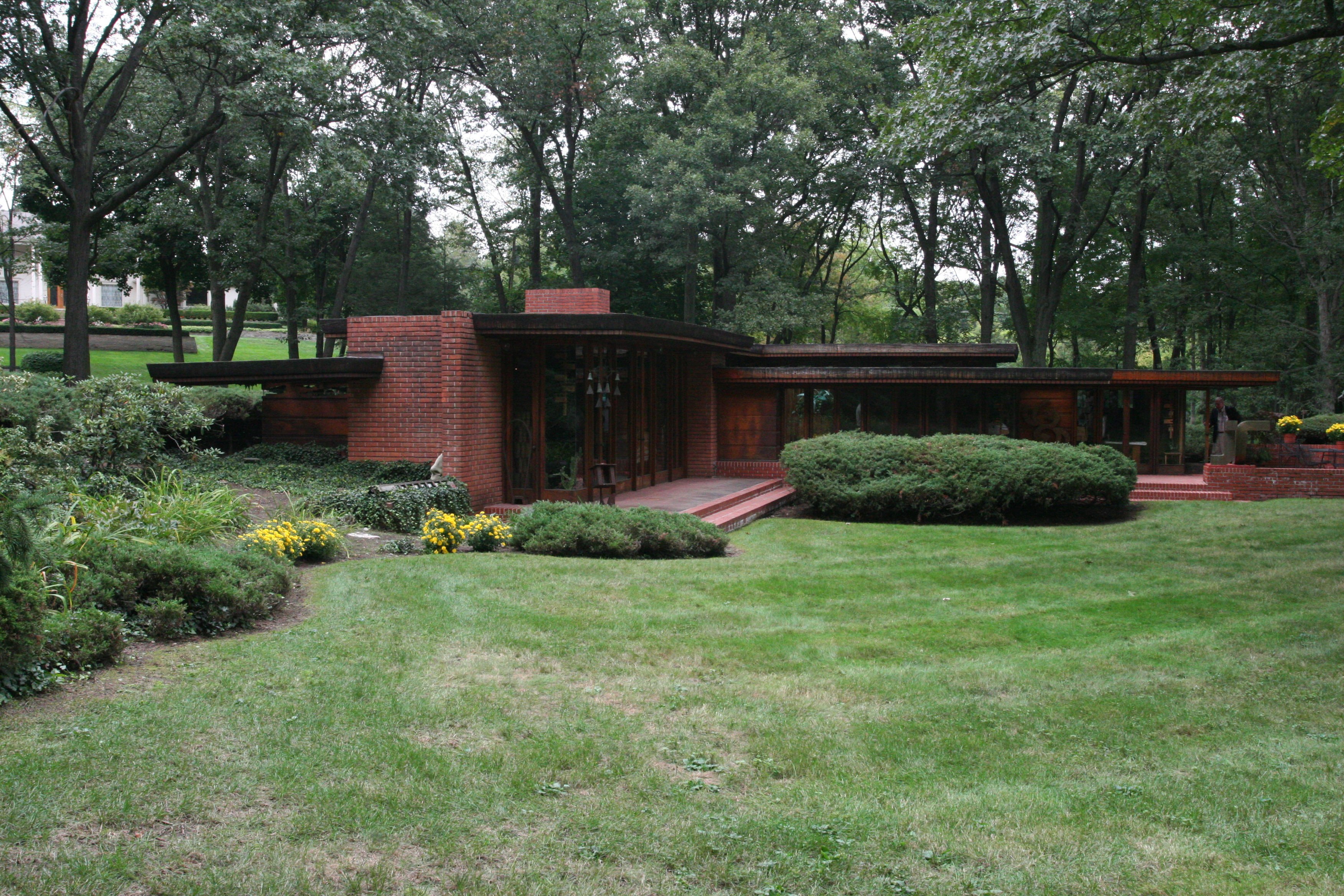 Melvyn Maxwell Smith House exterior 1 - FLW, Architect - Bloomfield Hills built in 1946